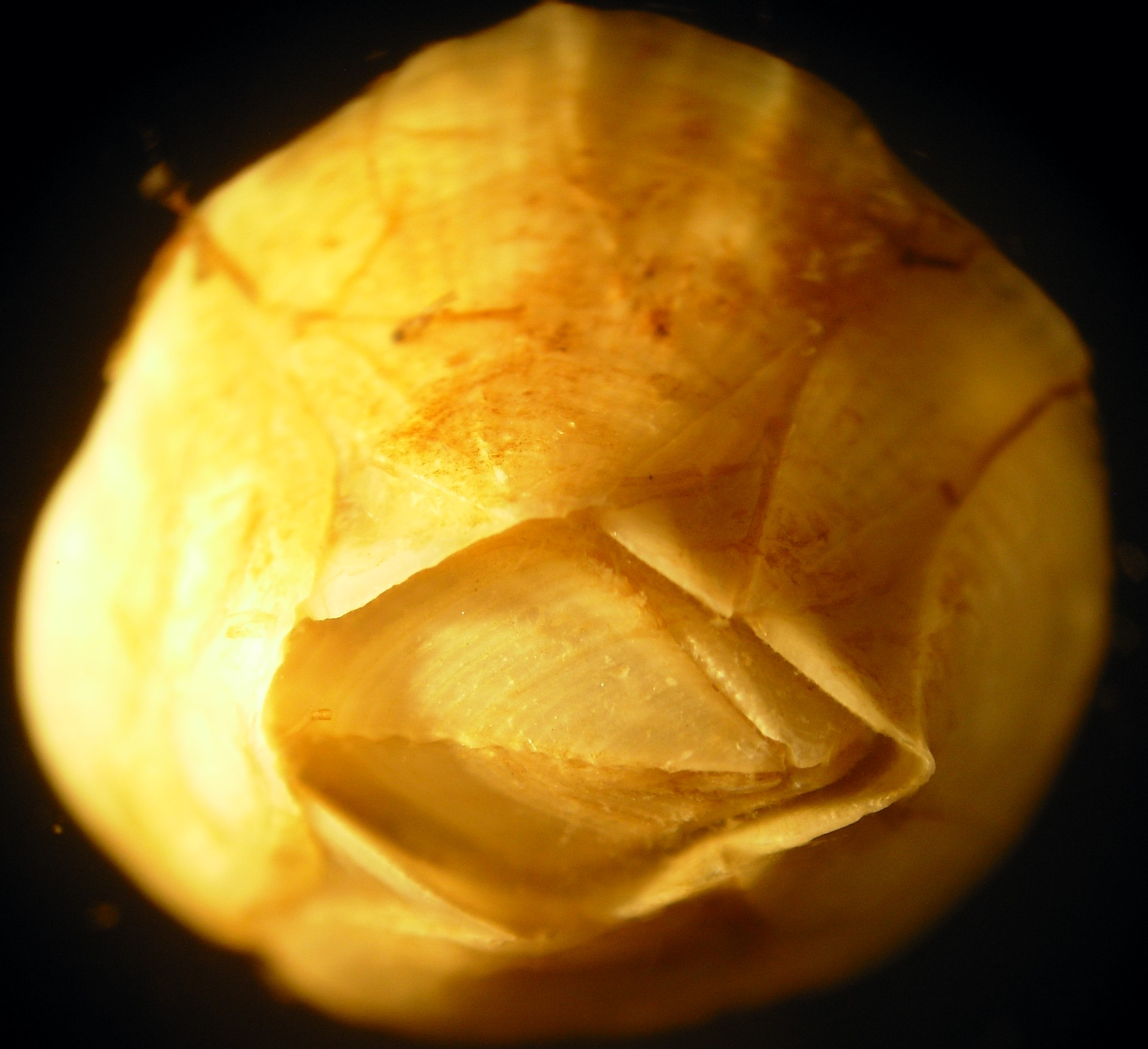 Balanus improvisus, seen from above.